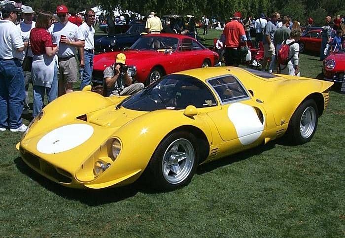 Ferrari 412 P s/n 0850, originally with Ecurie Francorchamps.